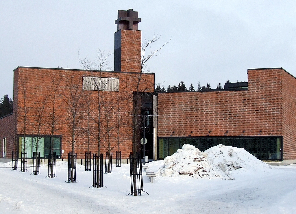 Saint Andrew Church in Kaakkuri neighborhood in Oulu, Finland. Completed in 2004, designed by Architects m3 Oy